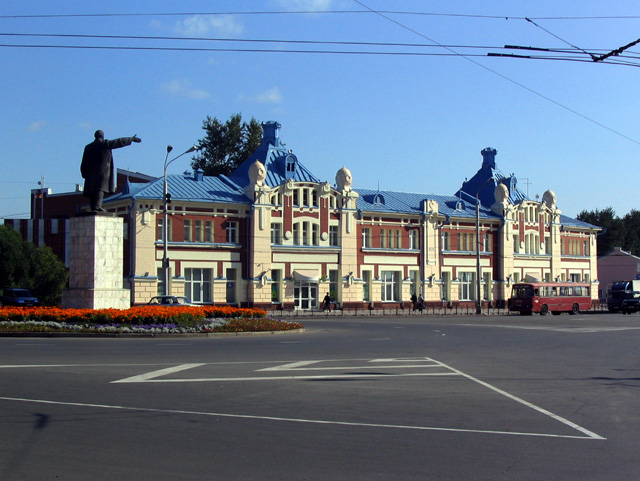 Lenin square in Tomsk